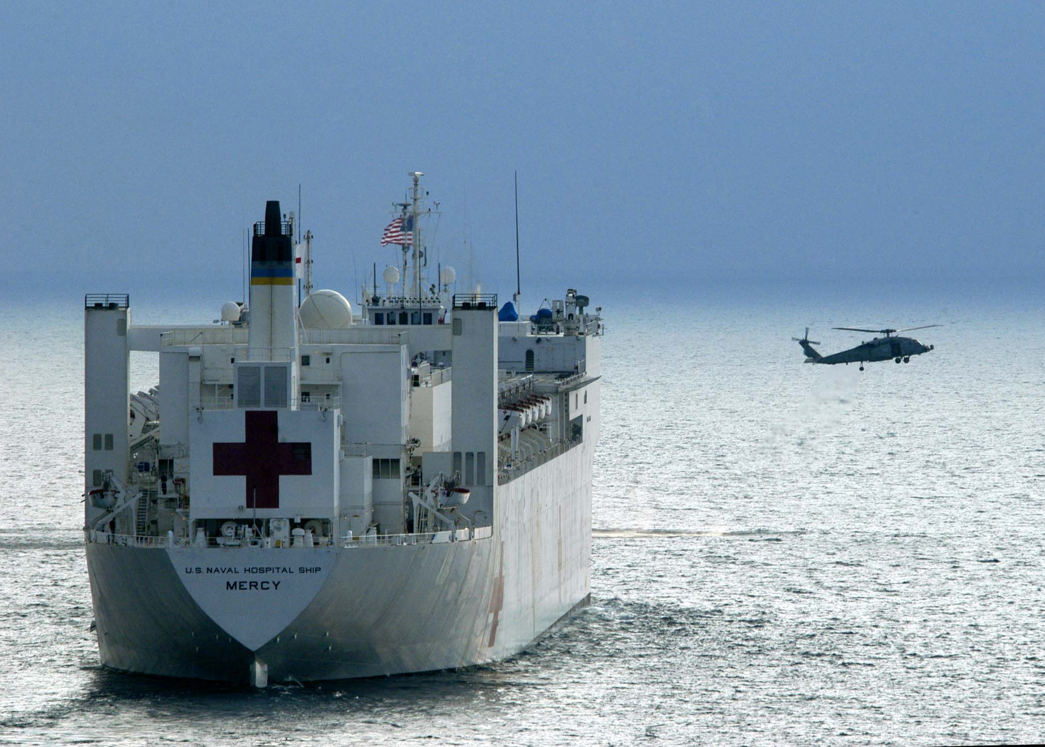 The hospital ship USNS Mercy (T-AH 19) arrives on station near Banda Aceh, Sumatra, Indonesia, on Feb. 3, 2005, to continue U.S. military humanitarian assistance and relief efforts. Mercy is in the region to provide medical assistance and support to those affected by the Dec. 26, 2004, Indian Ocean tsunami.